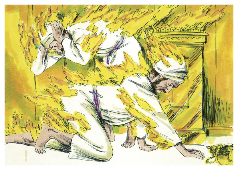 Biblical illustration of Book of Leviticus Chapter 10